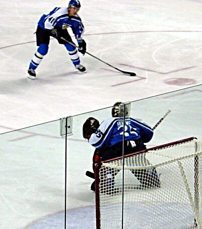 Antti Aalto and Jani Hurme, Winter Olympics 2002.